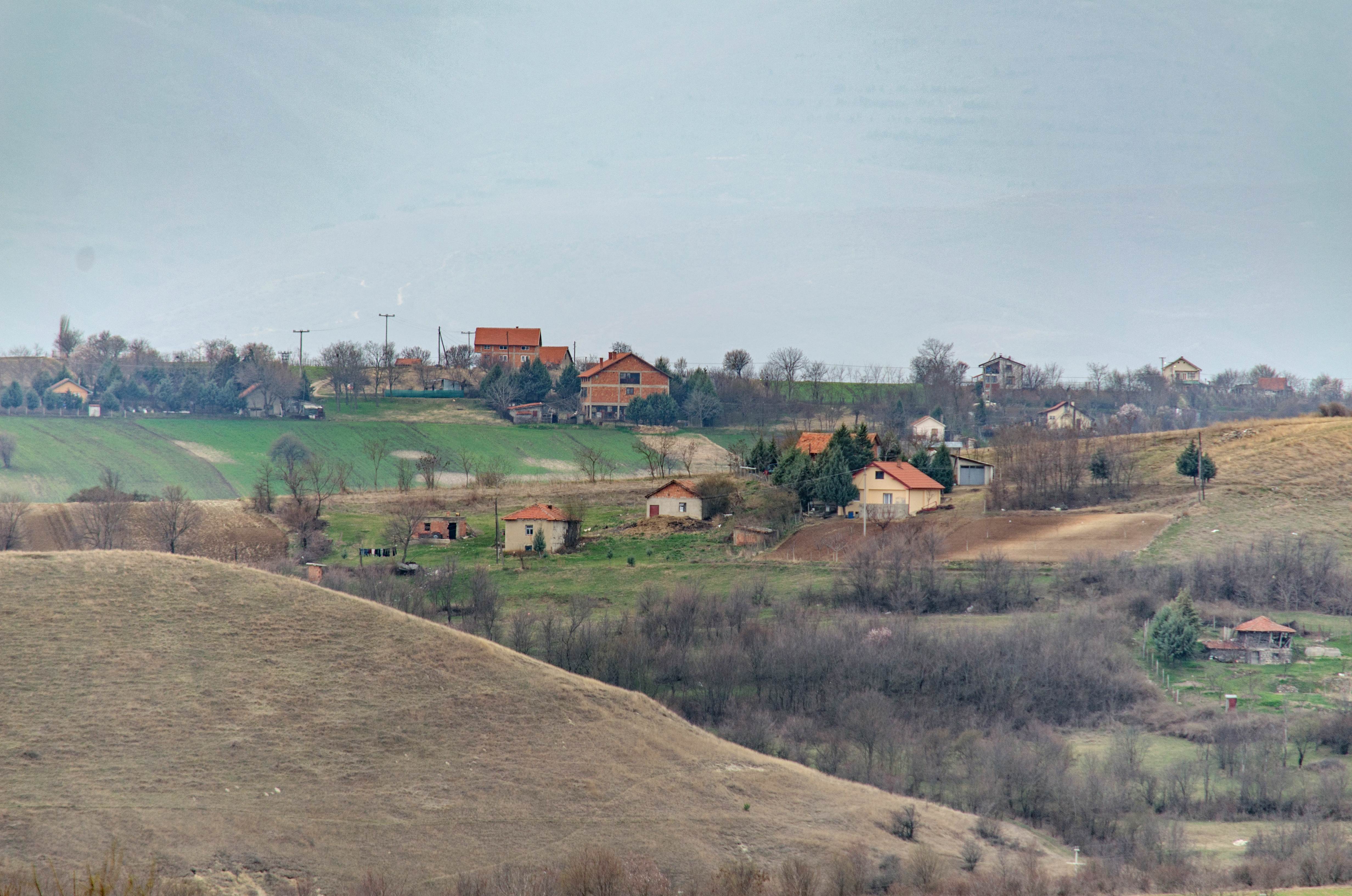 Mlado Nagoričane